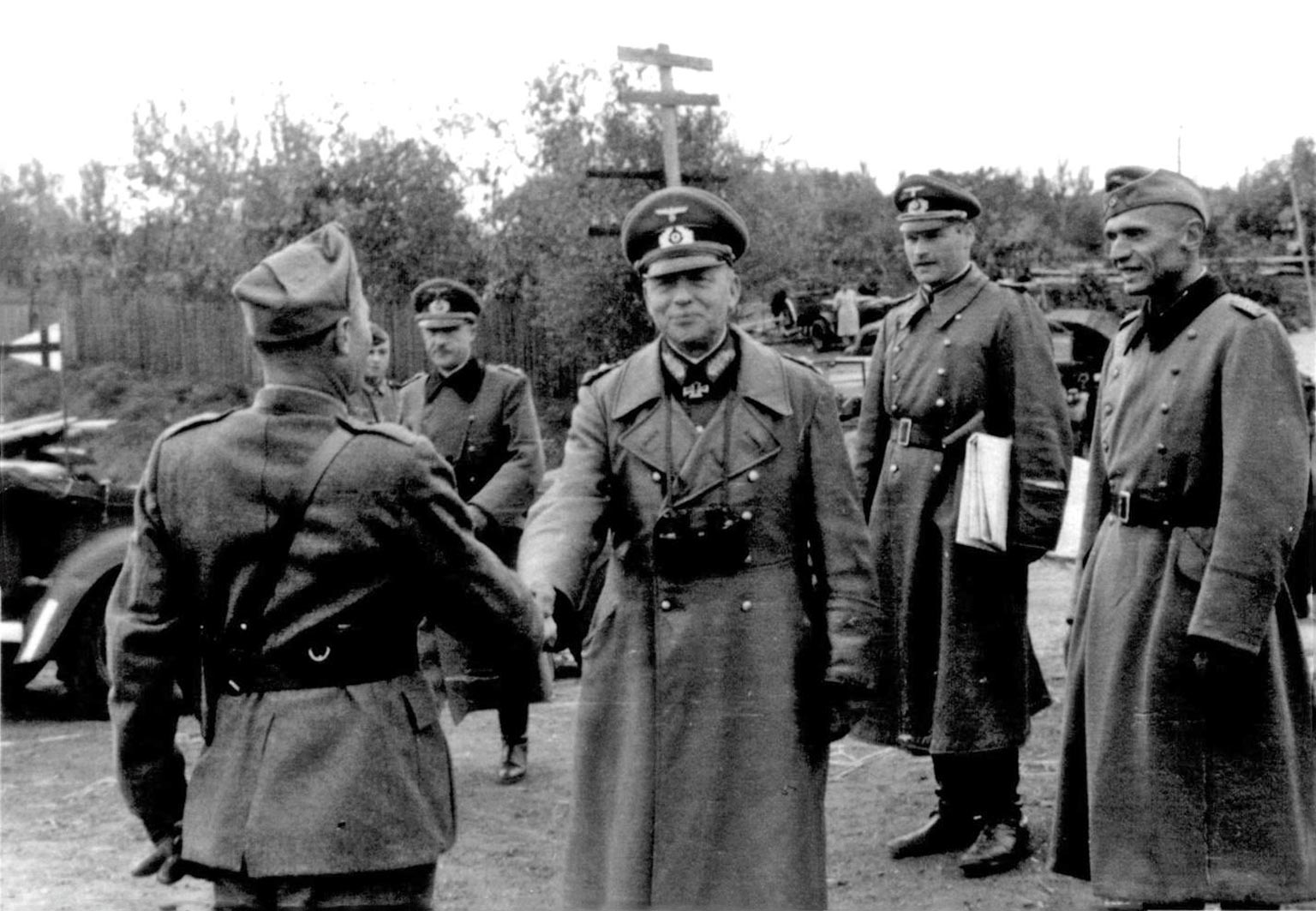 General Ewald von Kleist greets the Italian officer at a bridge near Dnepropetrovsk